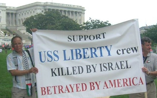 Pro Palestinian Protesters at a June 10, 2007 rally in Washington DC.